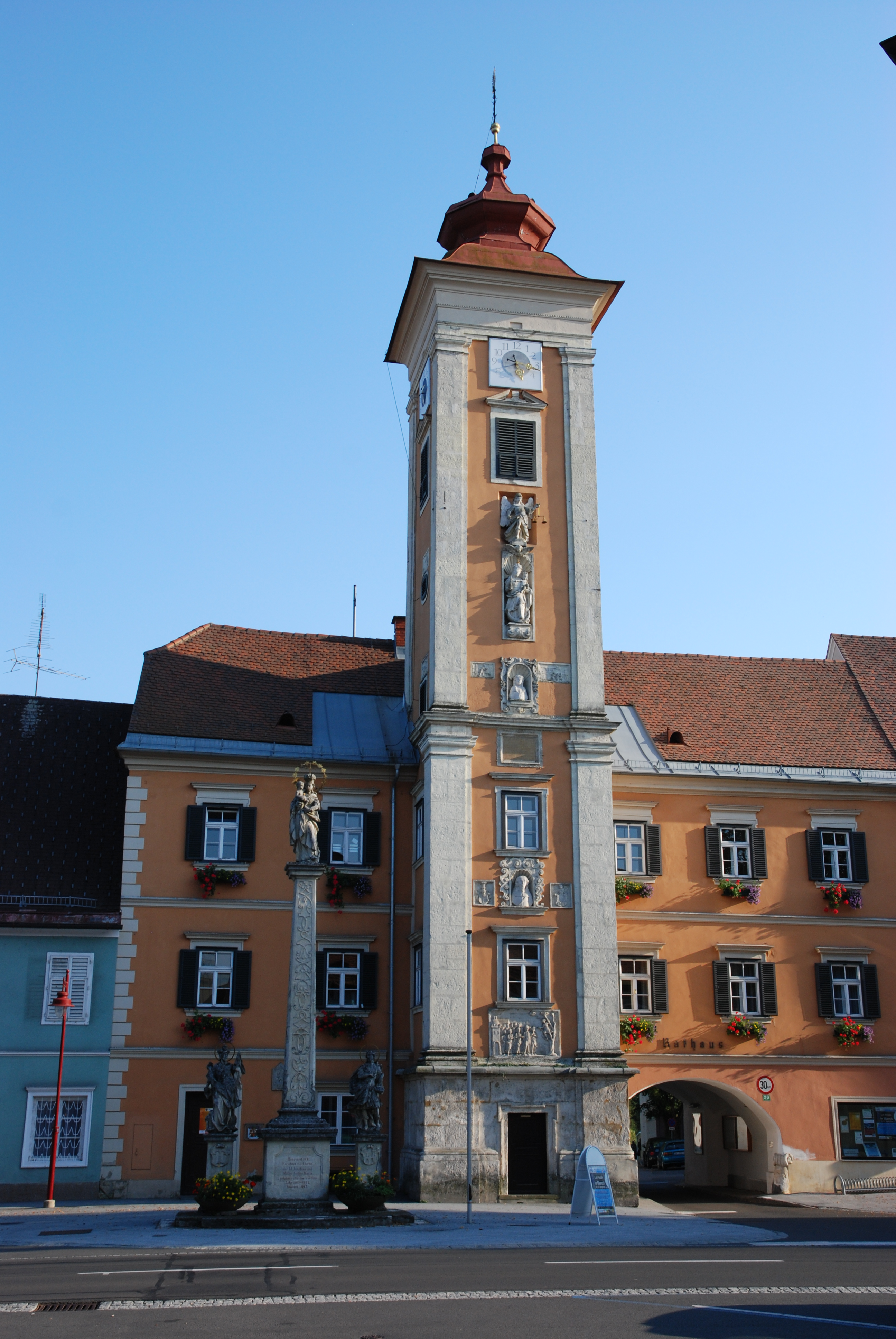 Town hall Mureck, in front the Marian column.